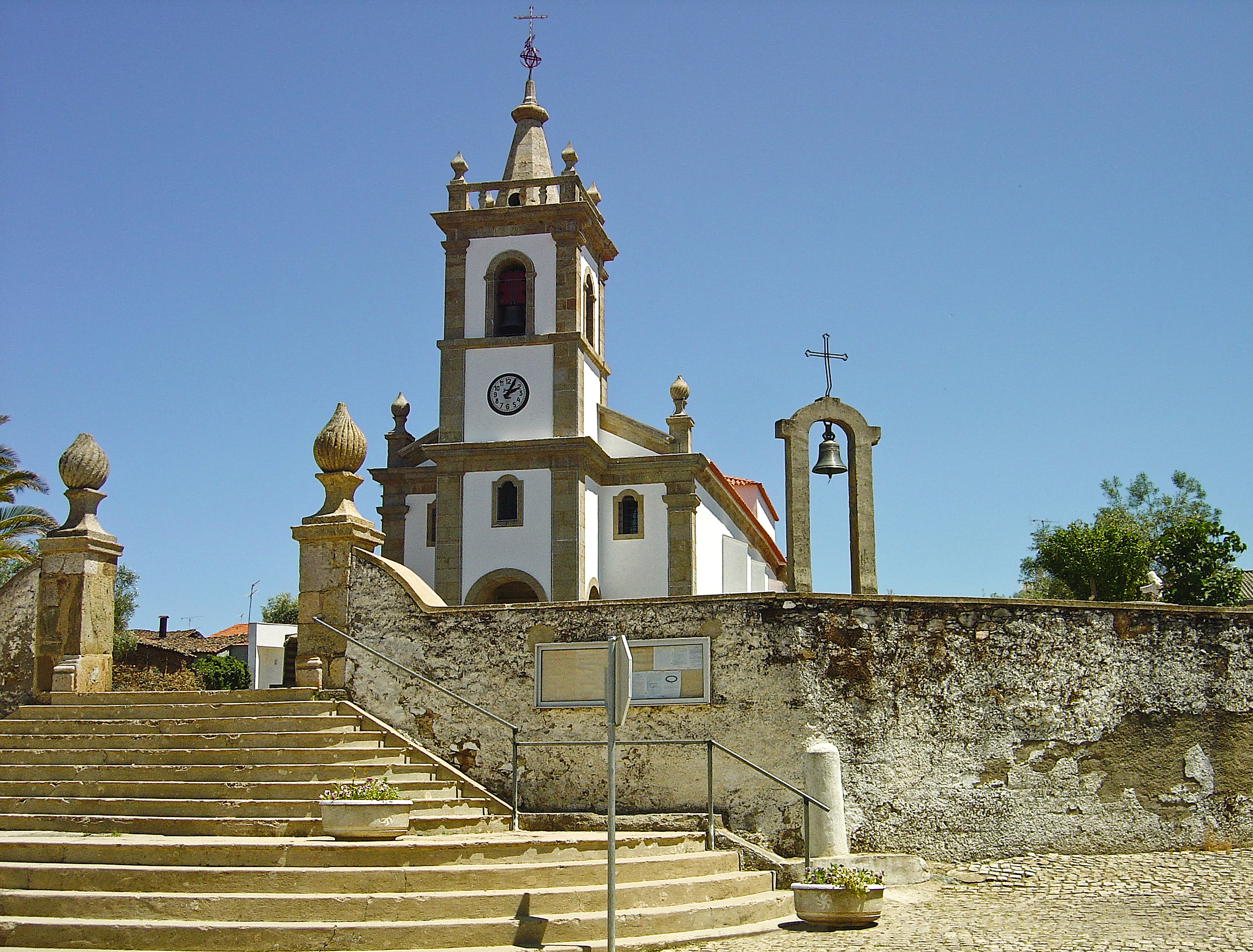 See where this picture was taken. [?]